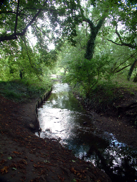 Ravensbourne River BR2. This photograph taken from a little way north of the end of Ravensbourne Avenue, looking south, where the river and its tree-lined banks pass between playing fields.